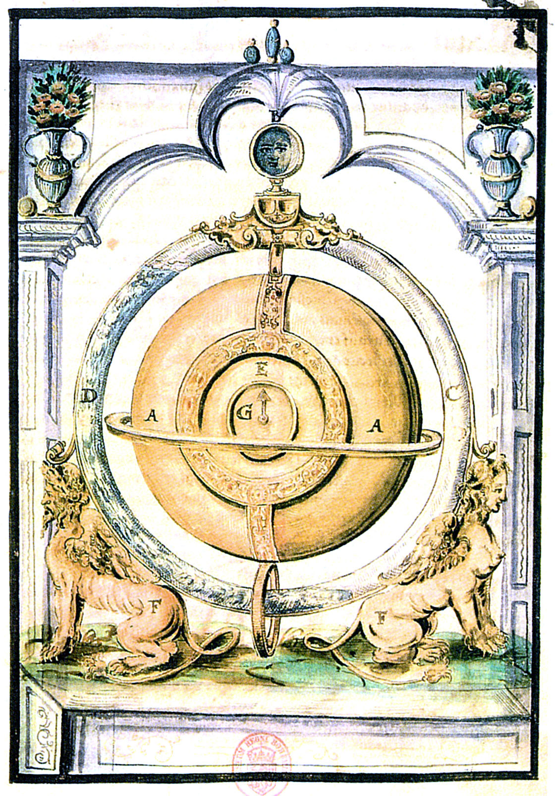 The barometric clock of Cornelis Drebbel patented in 1598 and then known as "perpetuum mobile". Print by Hiesserle von Choda (1557-1665).